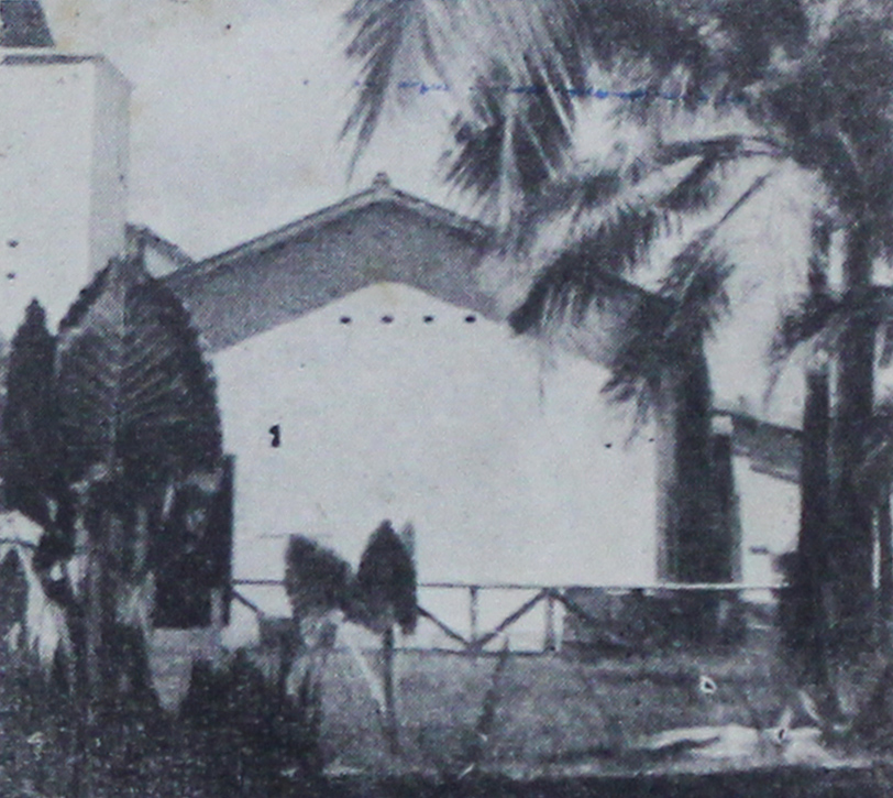 The Perfini studios in 1958